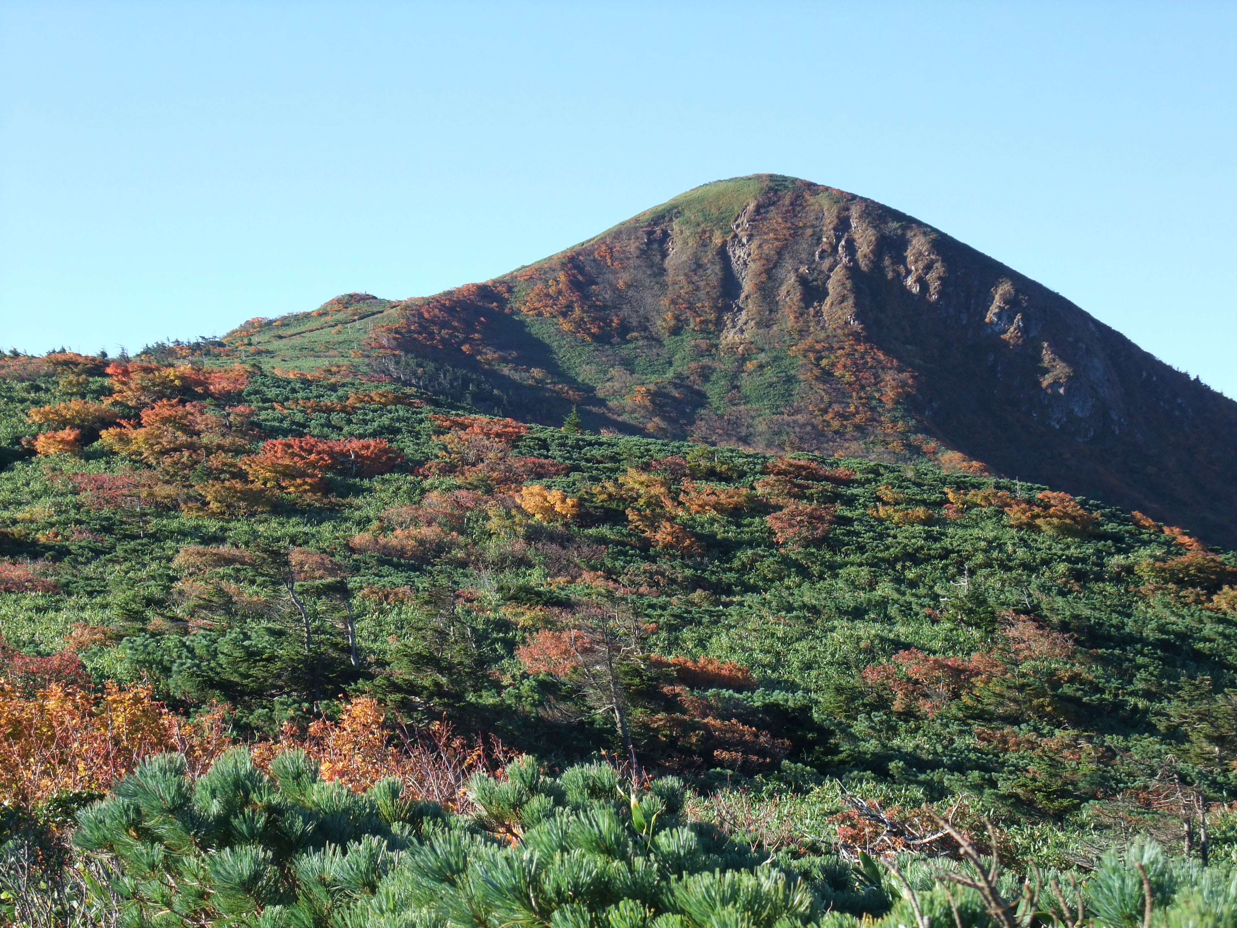 Mount Mokko (Mokko-dake) seen from the Hachimantai Jukai Line